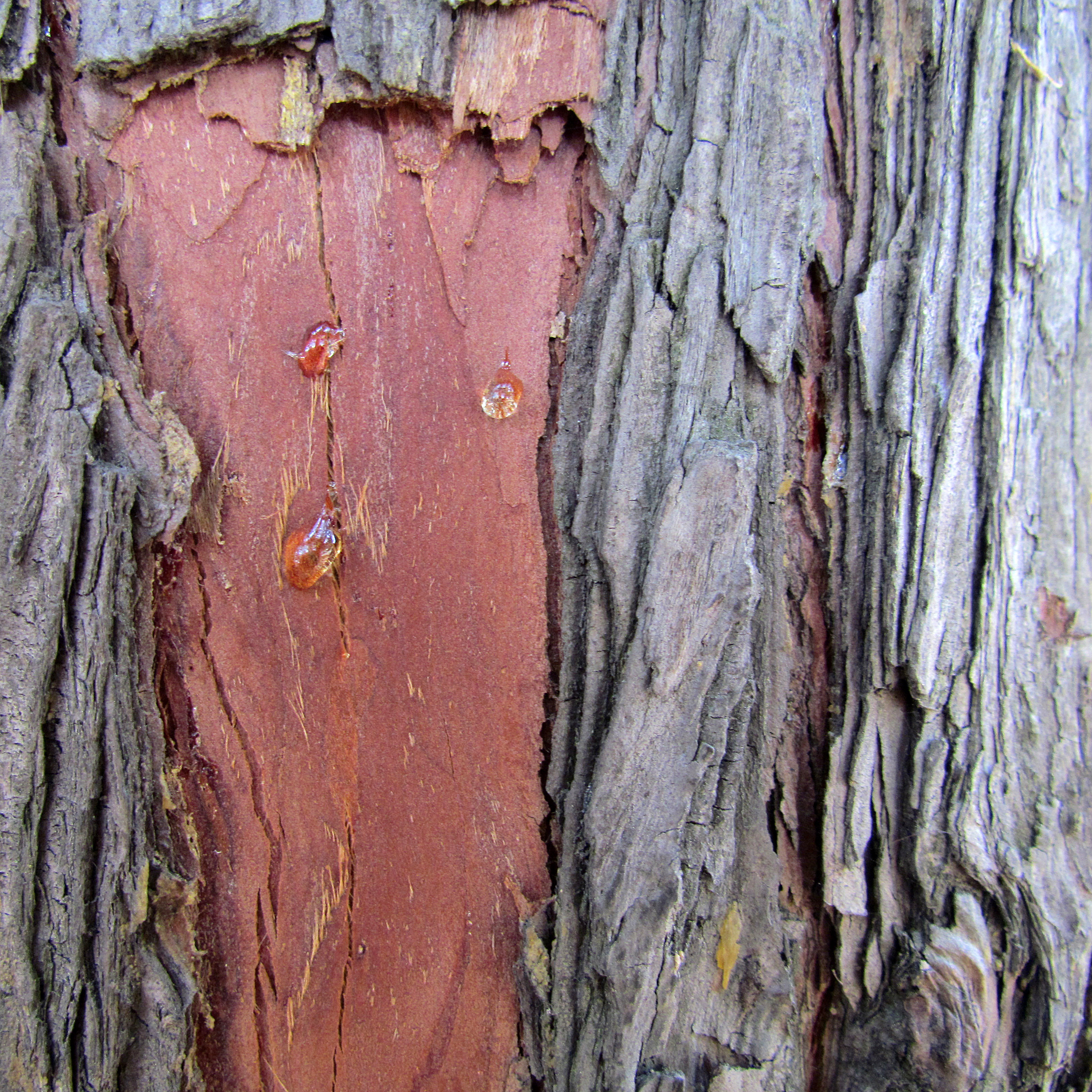 Juniperus virginiana bark